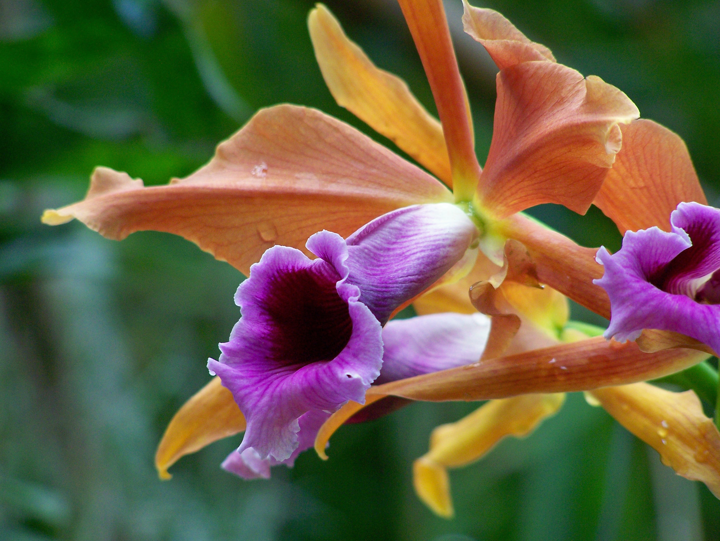 Laelia tenebrosa